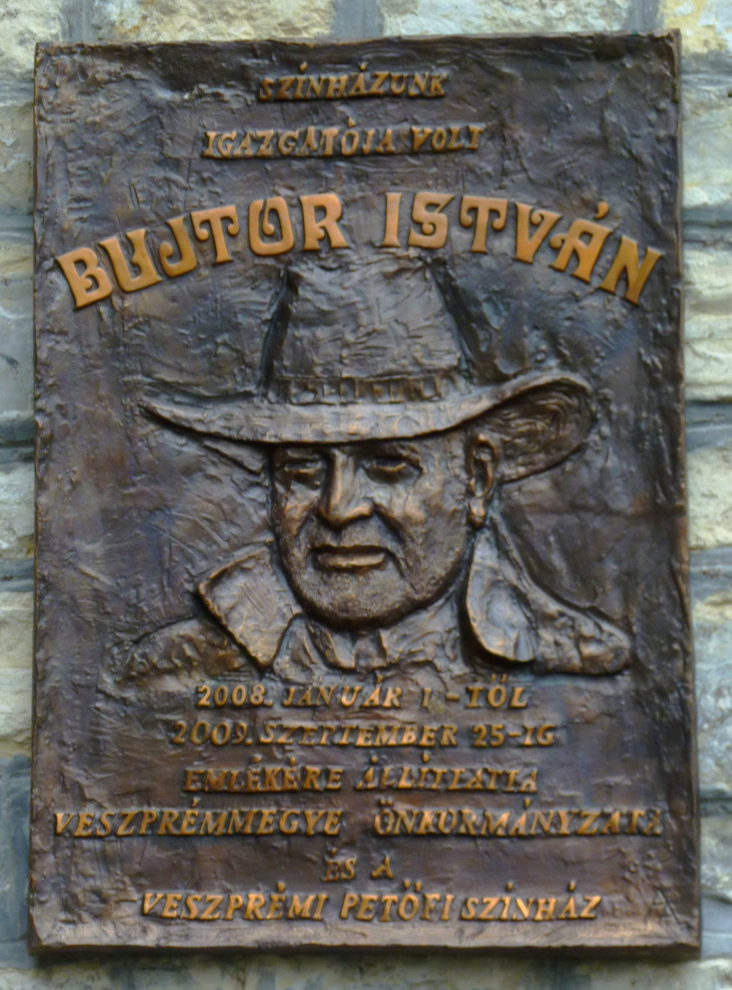 István Bujtor relief in Veszprém. Veszprém Petőfi Theatre. Óvári Ferenc Street No 2. (András Albert, 2010.)